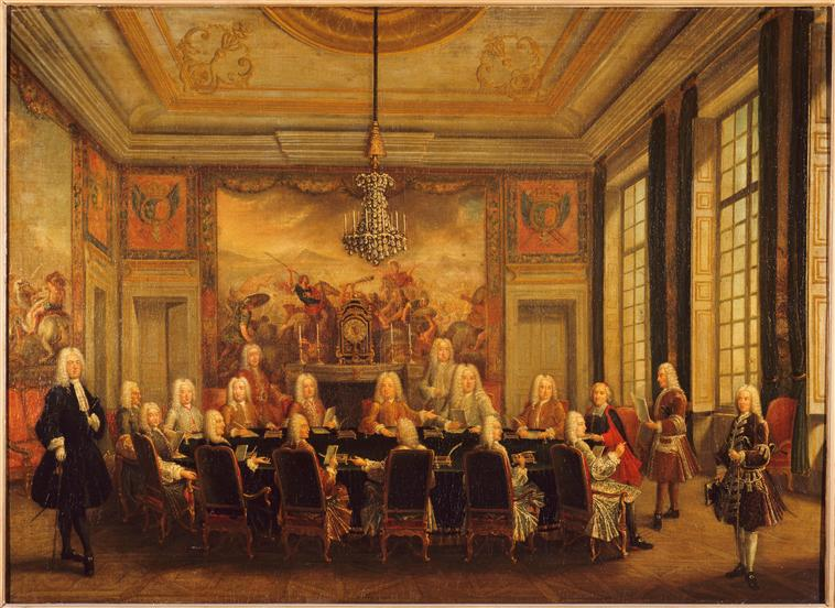 Council meeting during the regency of the duke of Orléans in the minority of Louis XV